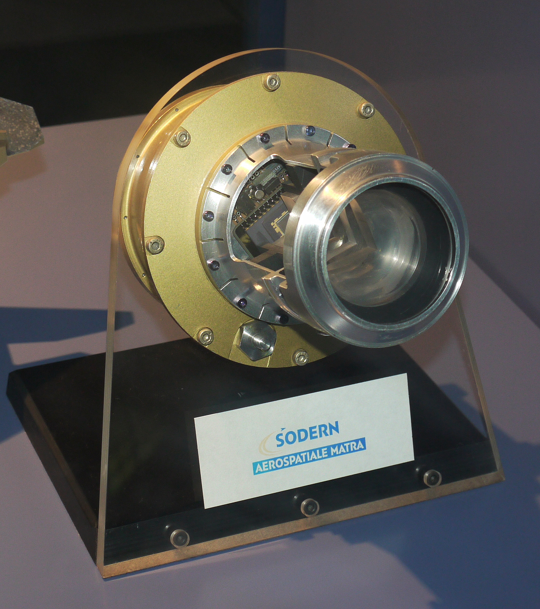 Optical head of a star Tracker used by the russian satellite Granat (fabricant Aérospatiale Matra), Museum of Air and Space Paris, Le Bourget (France)